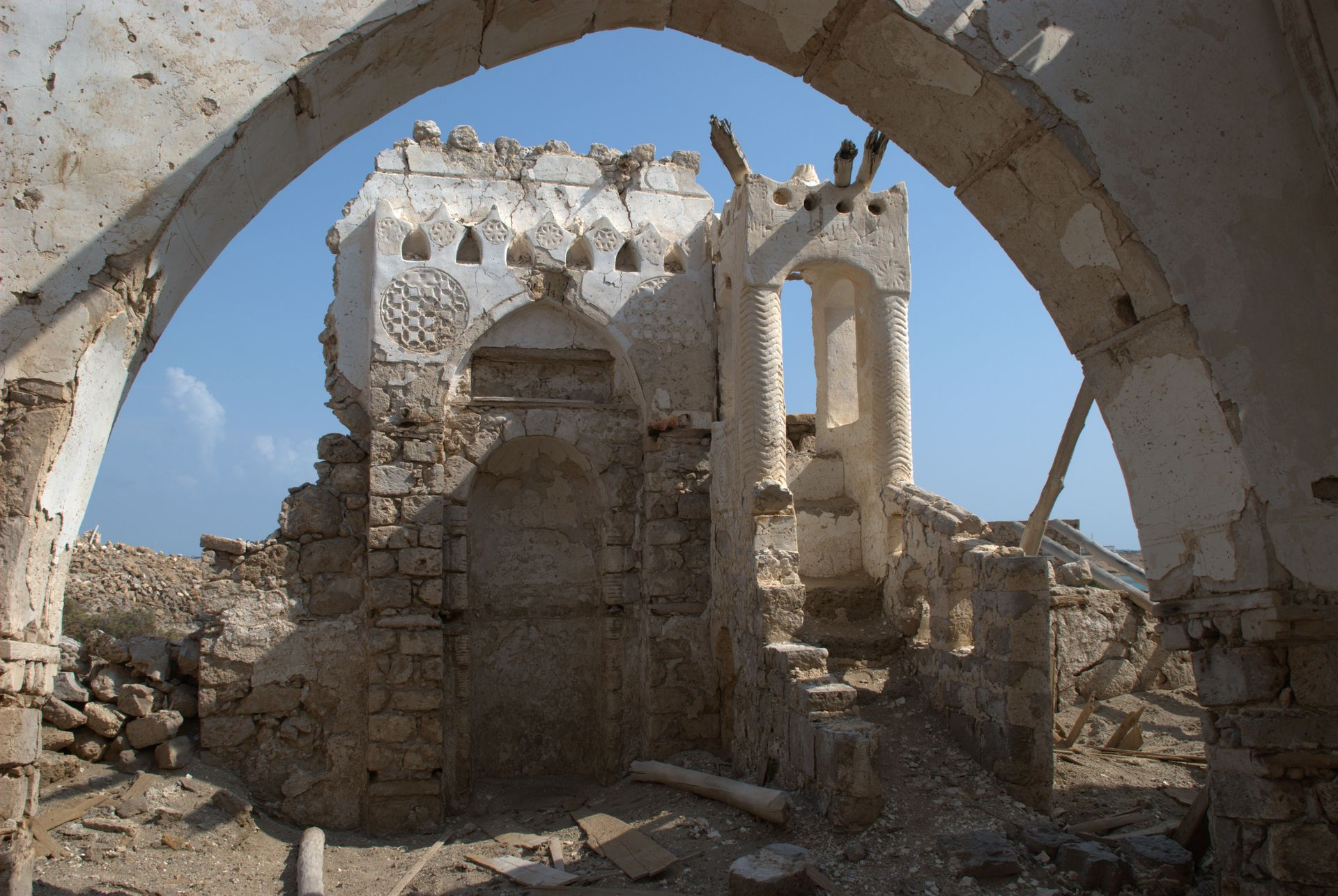 Mihrab and minbar of Schafia Mosque - Suakin, Sudan.